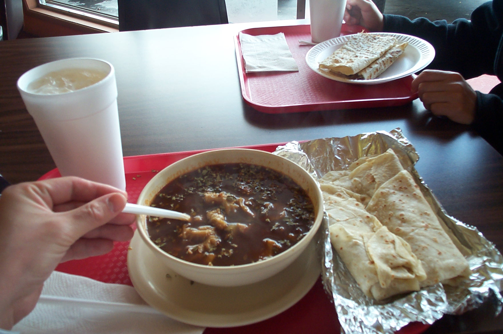 Menudo as served in Ortega's, La Jolla, California, 20050220. Copyright © 2005 Kaihsu Tai.